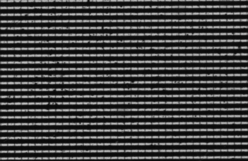 OLED display getting old